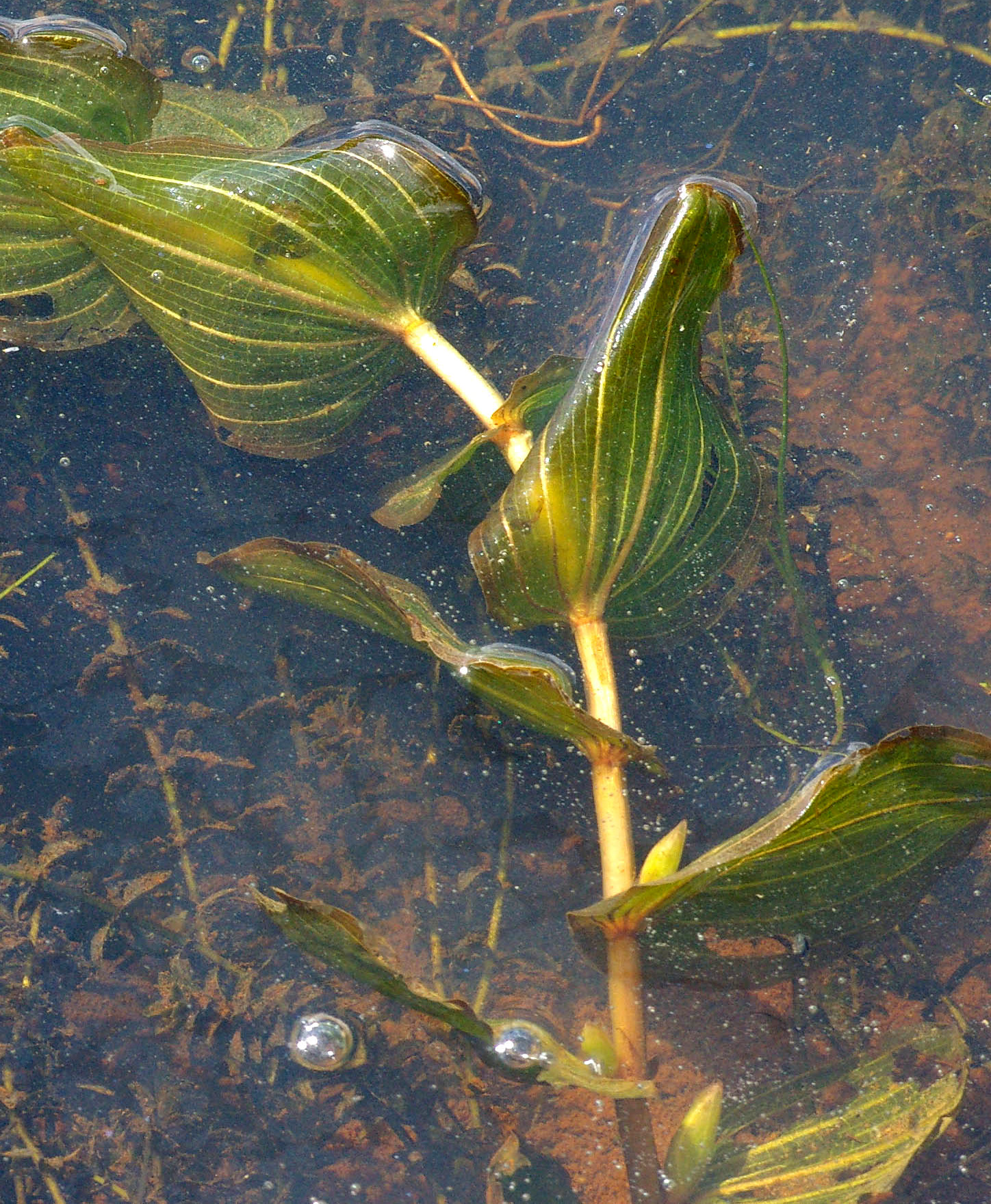 Part of the waterplant Perfoliate Pondweed, Potamogeton perfoliatus with turions sitting at the leaves' basis.